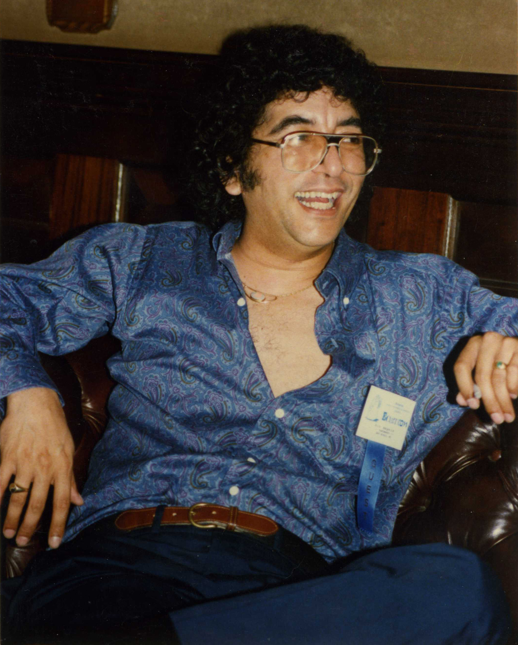 Robert Lynn Asprin laughing